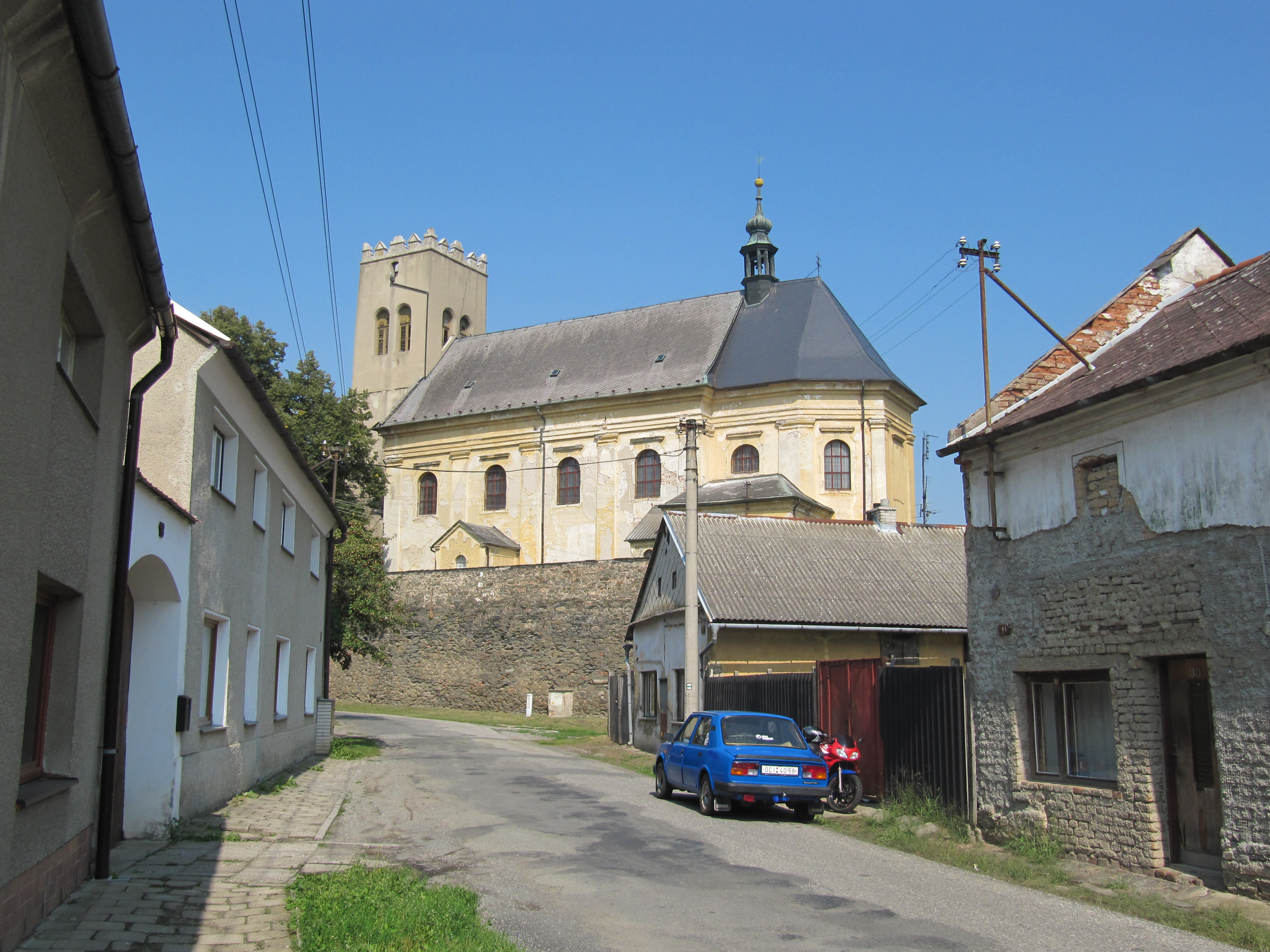 Náklo in Olomouc District, Czech Republic. Baroque parish church of St. George and the Renaissance Tower.